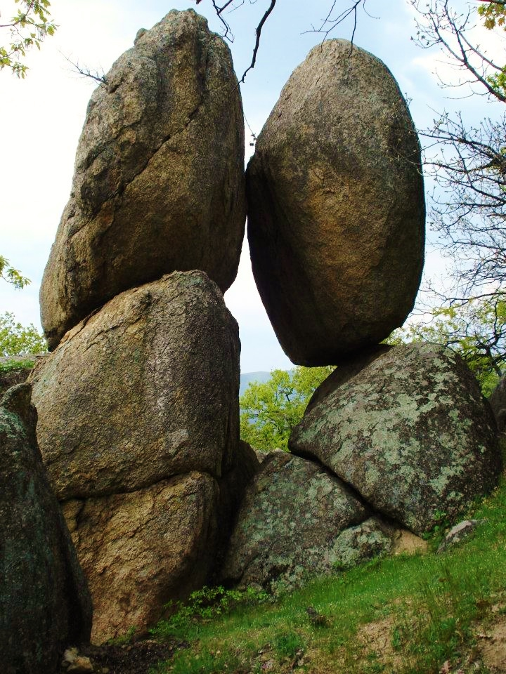 Arc at Momini gardi sanctuary Starosel Bulgaria 2